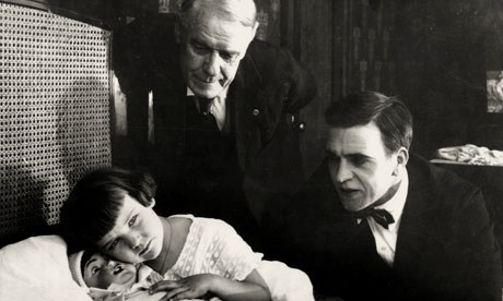 L. to R. : Marie Osborne, Daniel Gilfeather & Henry King (actor and director) in Little Mary Sunshine - cropped screenshot